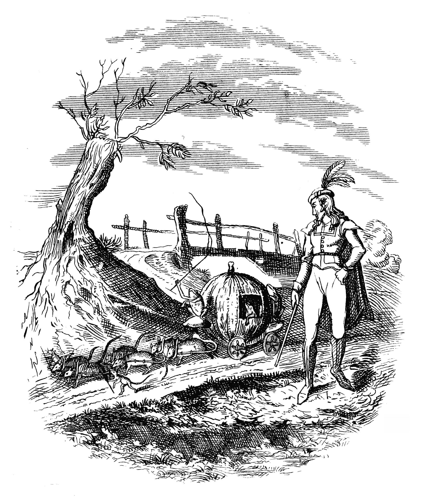 Illustration for a Grimm fairy tale